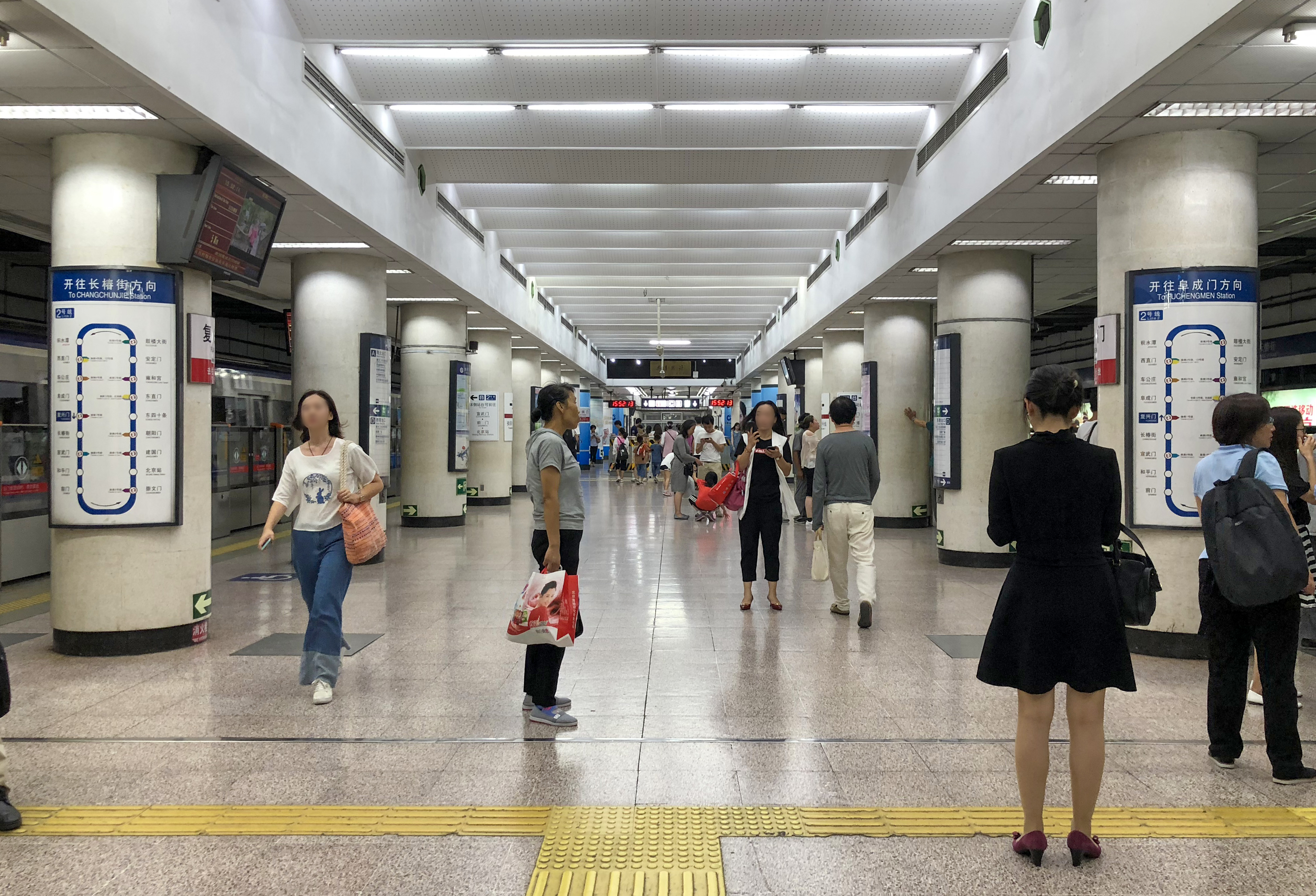 Back at the Fuxingmen-Youth League Station.